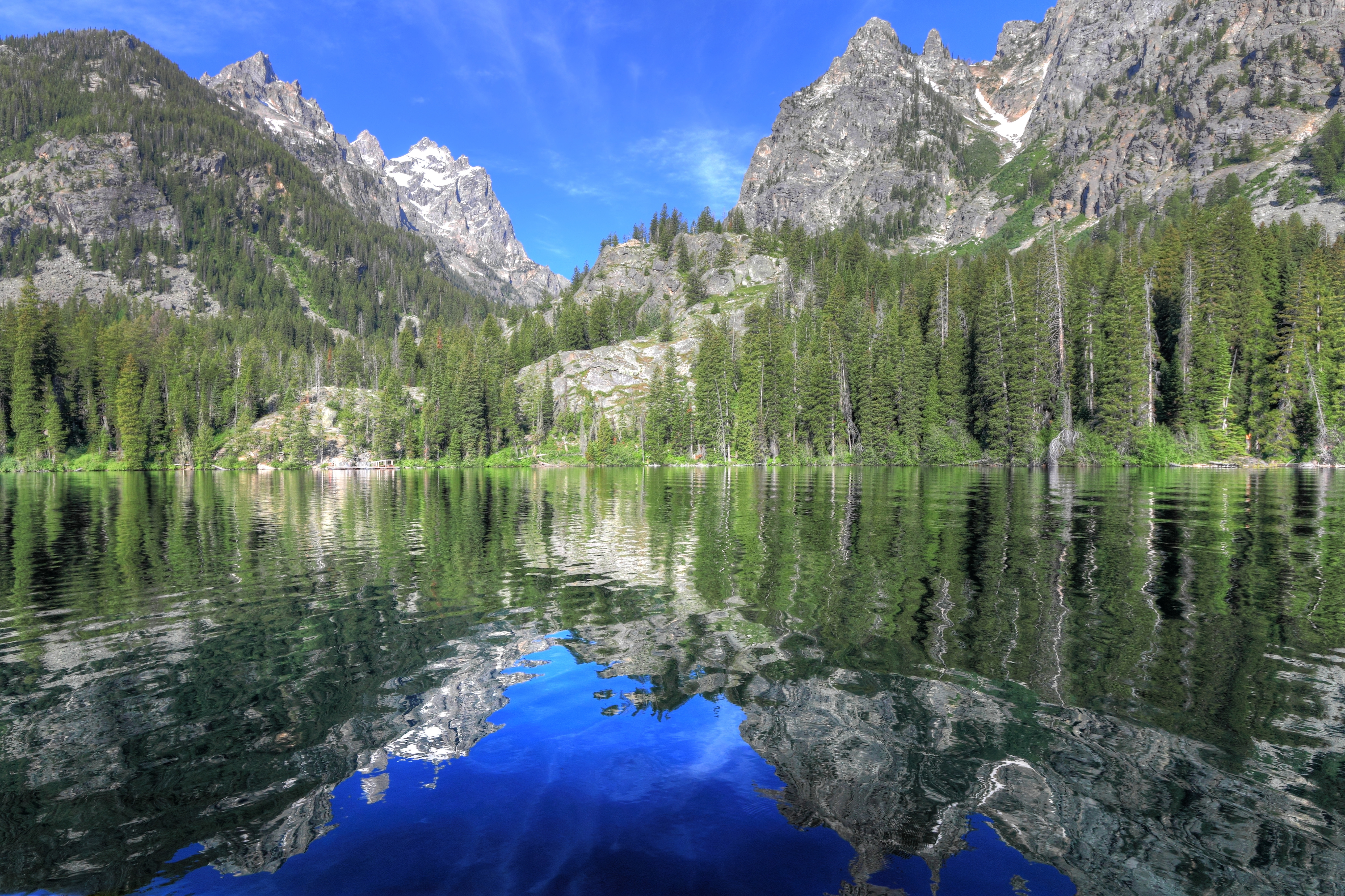 Cascade Canyon viewed from the boat ride across Jenny Lake